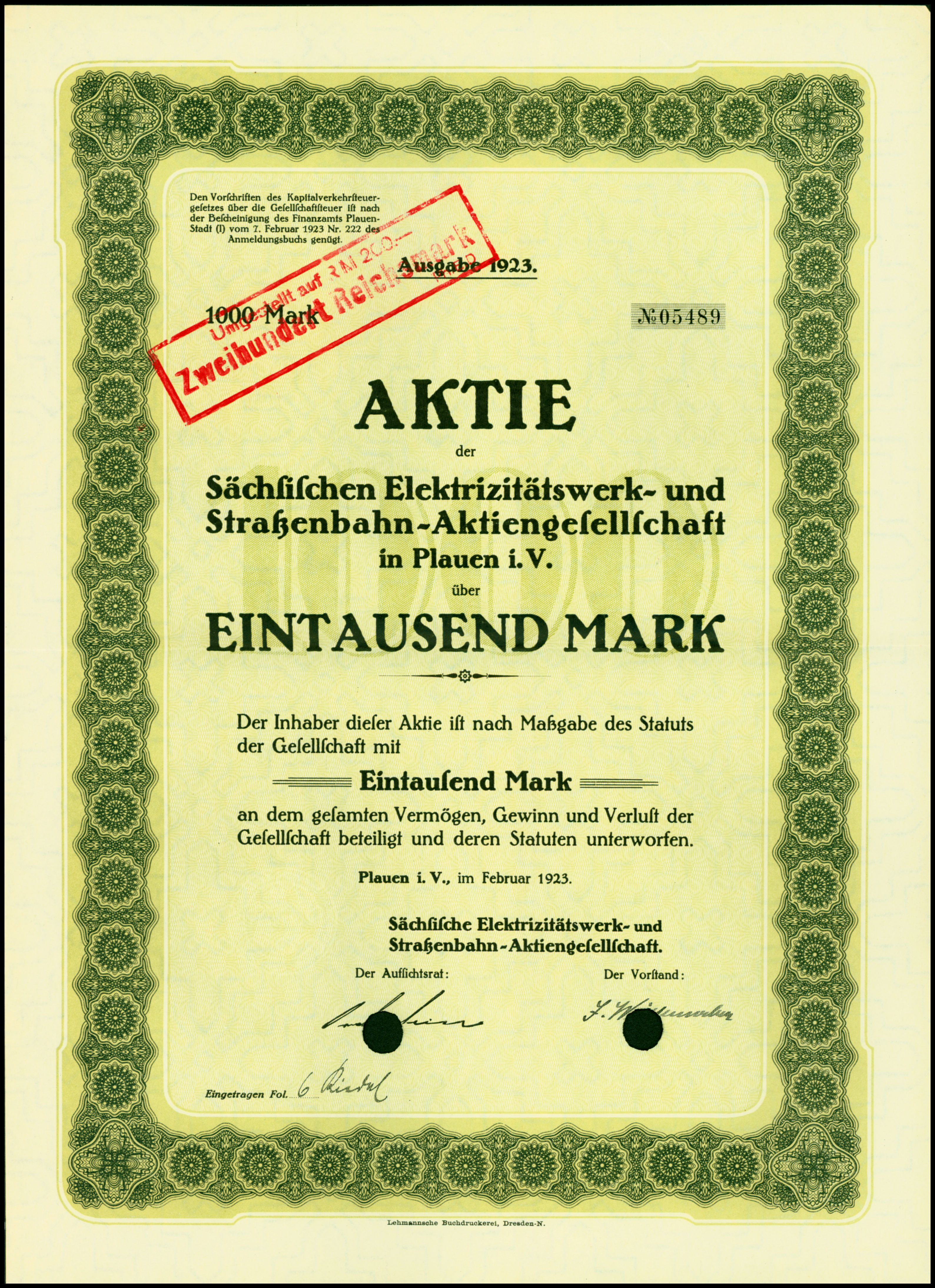 Share of the Sächsische Elektrizitätswerk- und Straßenbahn-AG, issued February 1923